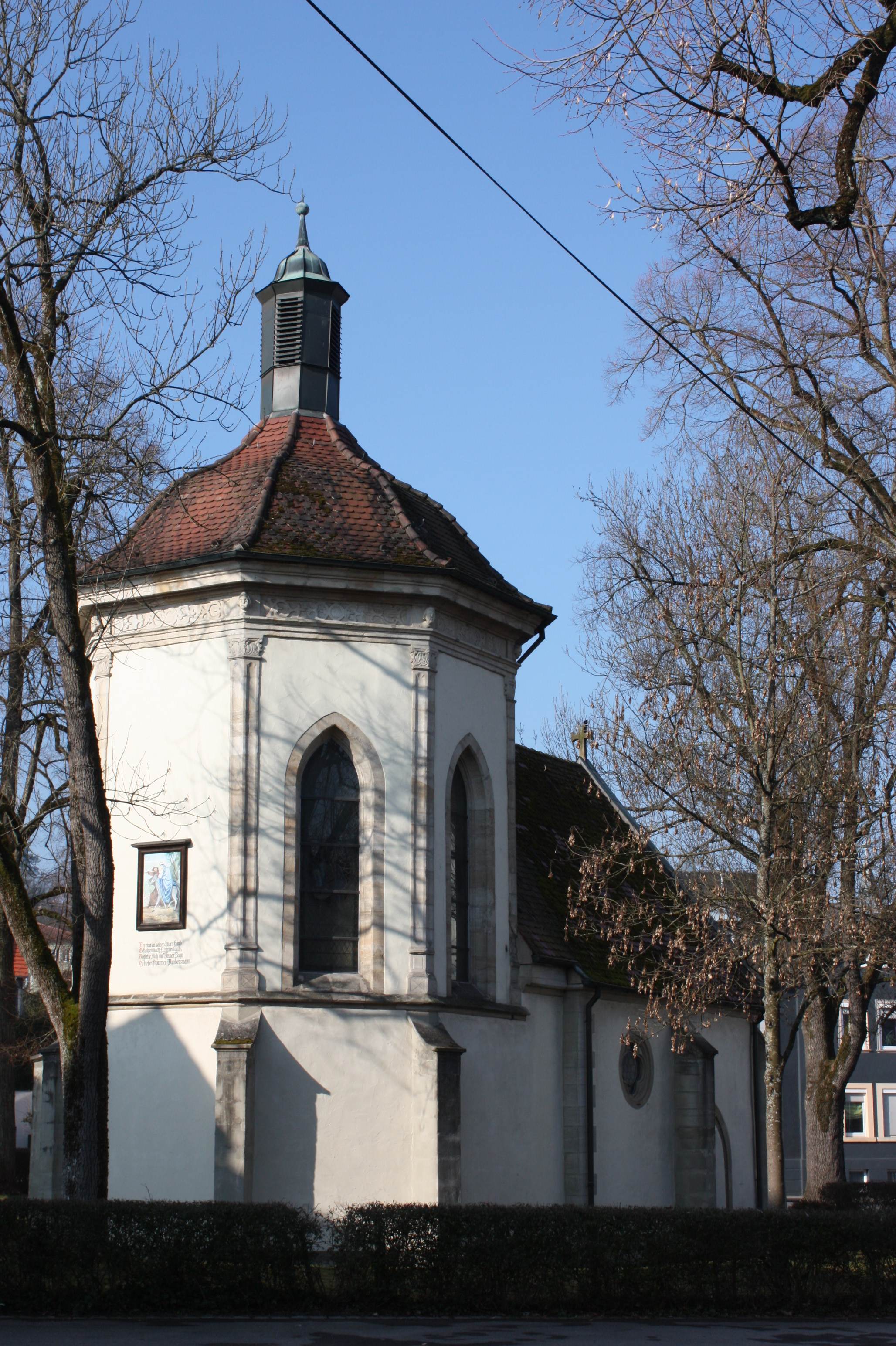 Josefschapel Schwaebisch Gmuend